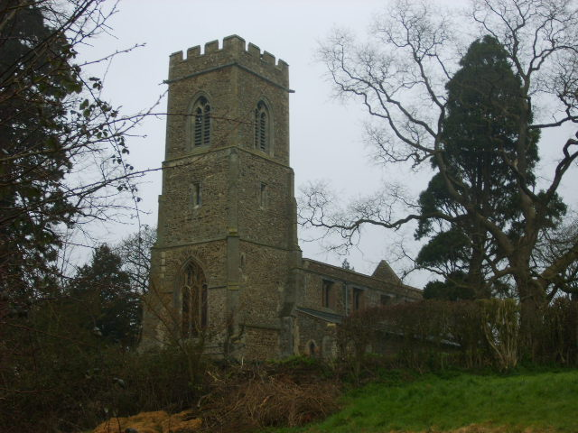 Parish church of SS Peter and Paul, Little Gransden, Cambridgeshire, seen from the southwest